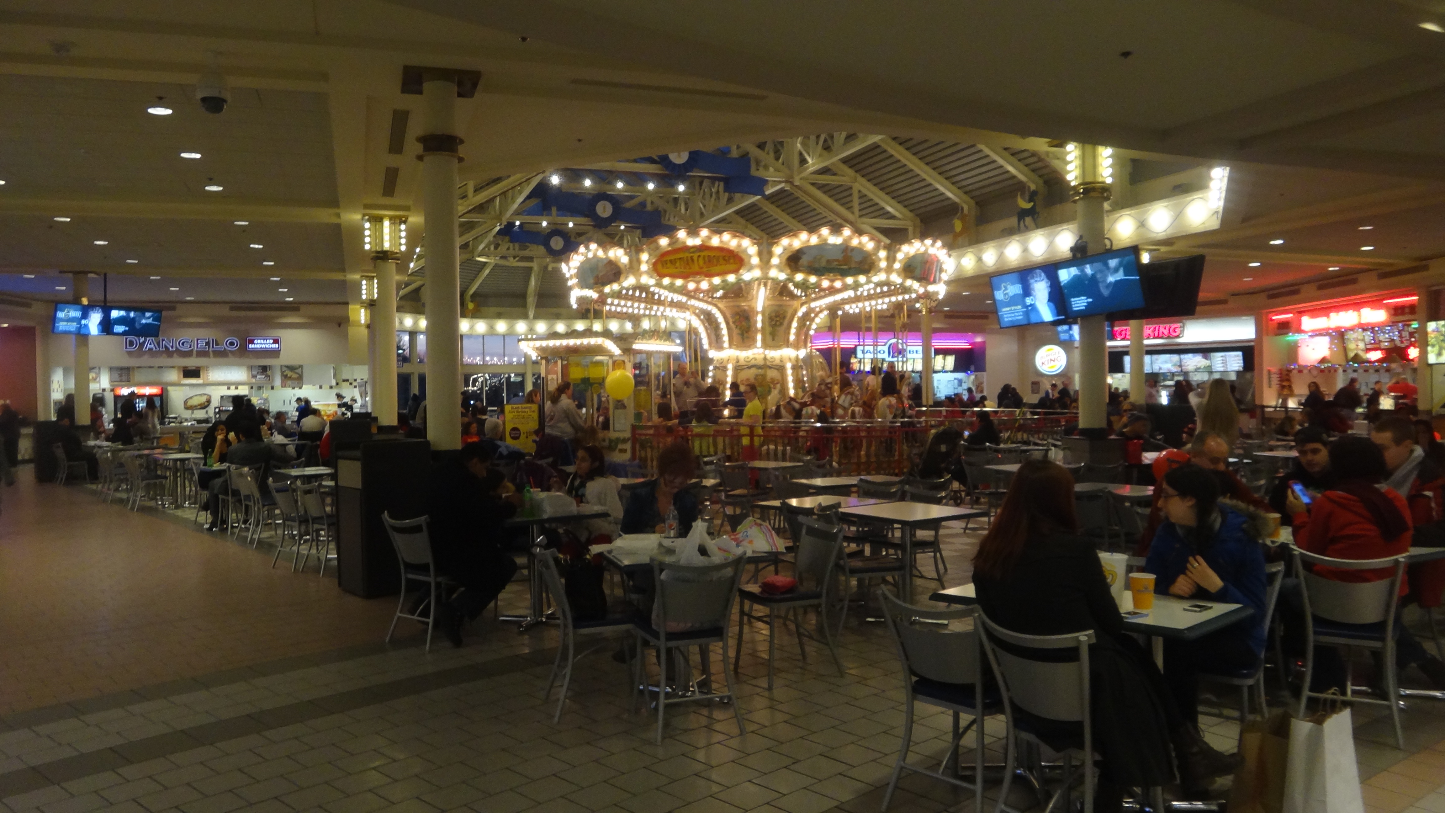 Picture of the food court at the Mall at Rockingham Park in Salem, NH on January 1, 2014. The carousel has since been demolished as part of mall renovations, new photo coming next time I am at this mall.